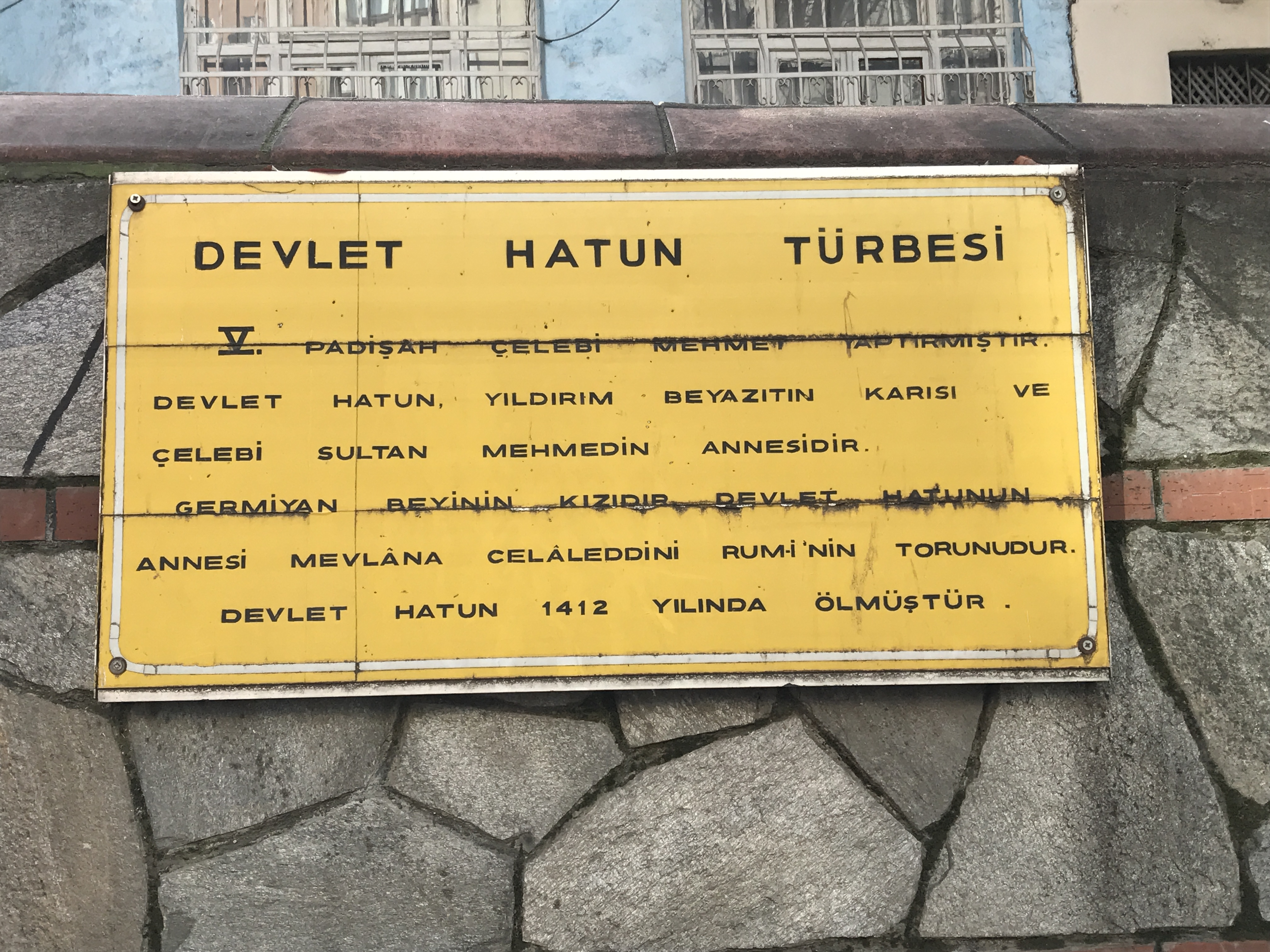 The tomb of Devlet Hatun: The tomb of Devlet Hatun stands alone in Bursa neighbourhoods separate from the mosque complexes that contained the tombs of the sultans and other members of the dynasty. The sign outside her tomb gives the following details: "It was built by Sultan Mehmed I. Devlet Hatun was the wife of Sultan Bayezid I and the mother of Sultan Mehmed I. She was the daughter of a Germiyanid prince. Her mother was the granddaughter of Mevlâna Celâleddini Rumi. Devlet Hatun died in 1412